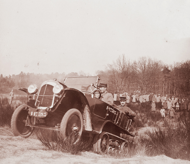 A batch of six French military glass stereoviews from 1924 (check neighbouring images for others and detailed views) - another lovely sub-set of the large batch I'm currently uploading. Assuming that they are related then they will all have been taken in countryside surrounding Fontainebleau.